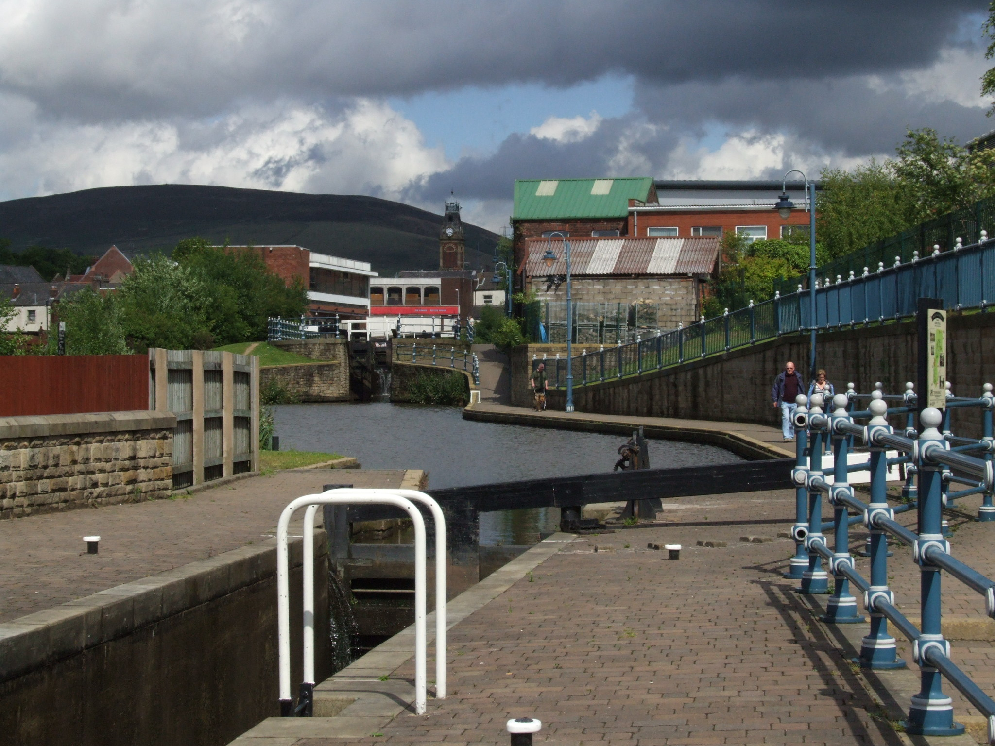 The Stalybridge, is a town in Thameside, Greater Manchester,England. The Huddersfield Narrow Canal passes through the town. Lock 4W